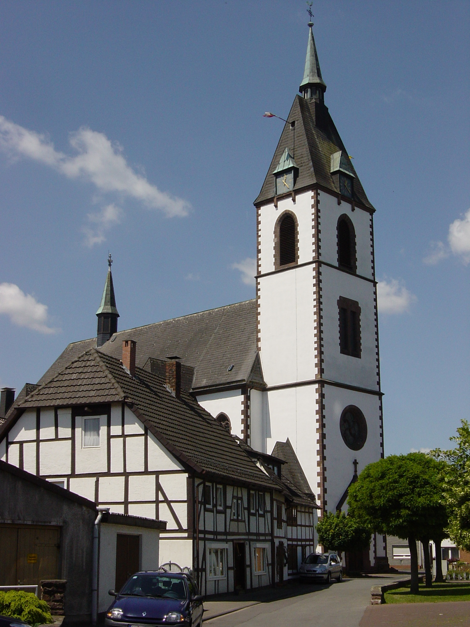 Catholic St. Johannes Baptist Church in Lüchtringen (Germany)